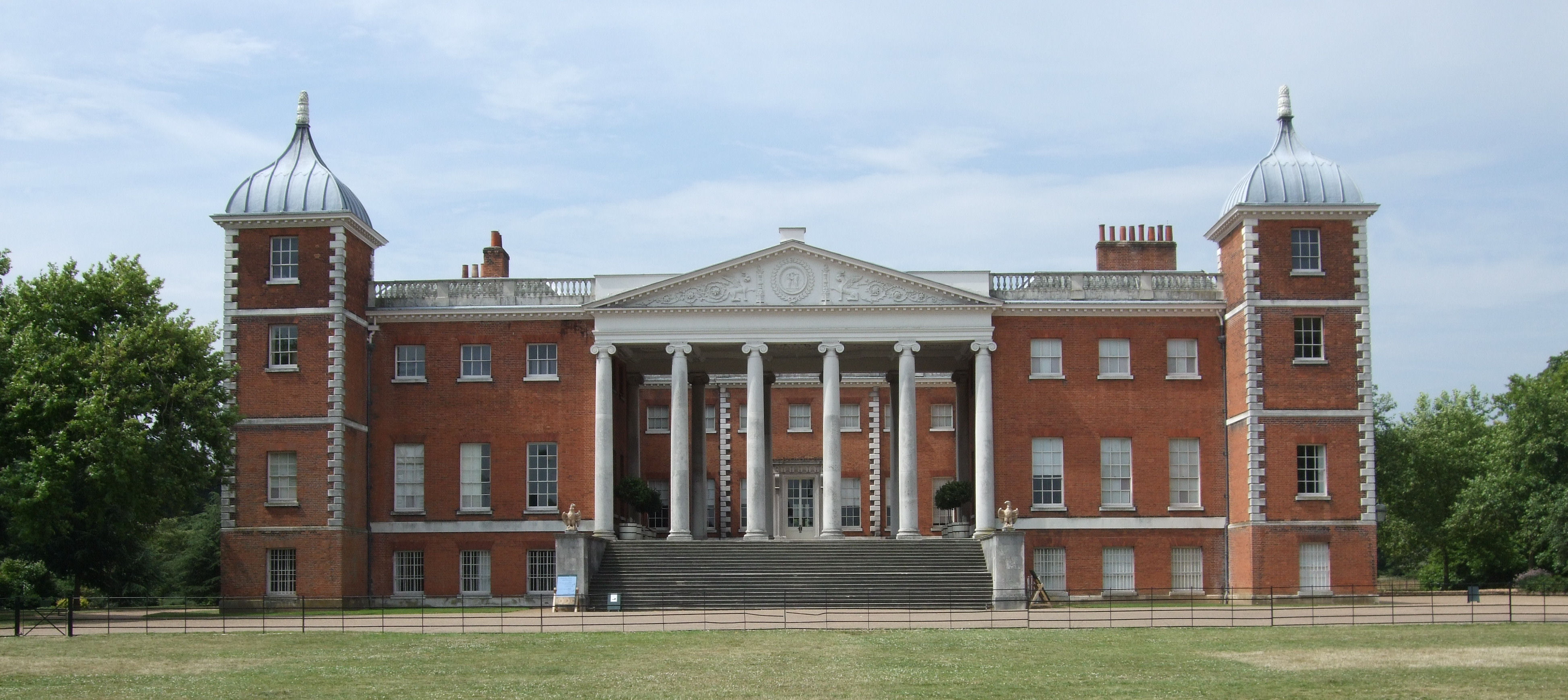 Osterley Park House, London, England.